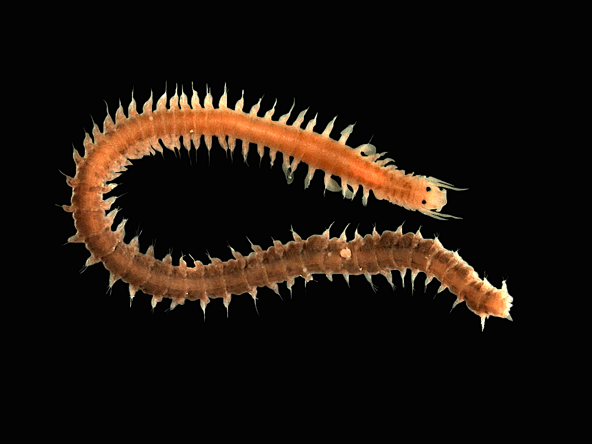 from the Belgian continental shelf.